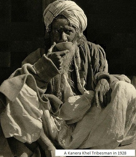 A Typical Kanera Tribesman in 1928